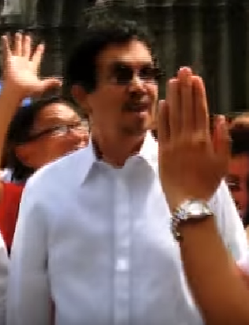 Roy Seneres on the way for his speech at his headquarters at Taguig.